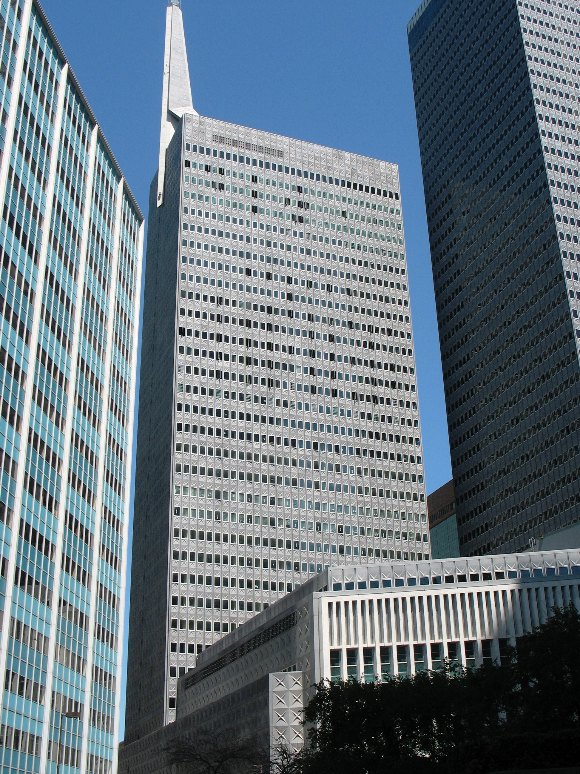 Republic Tower I, looking north from Main and Ervay.